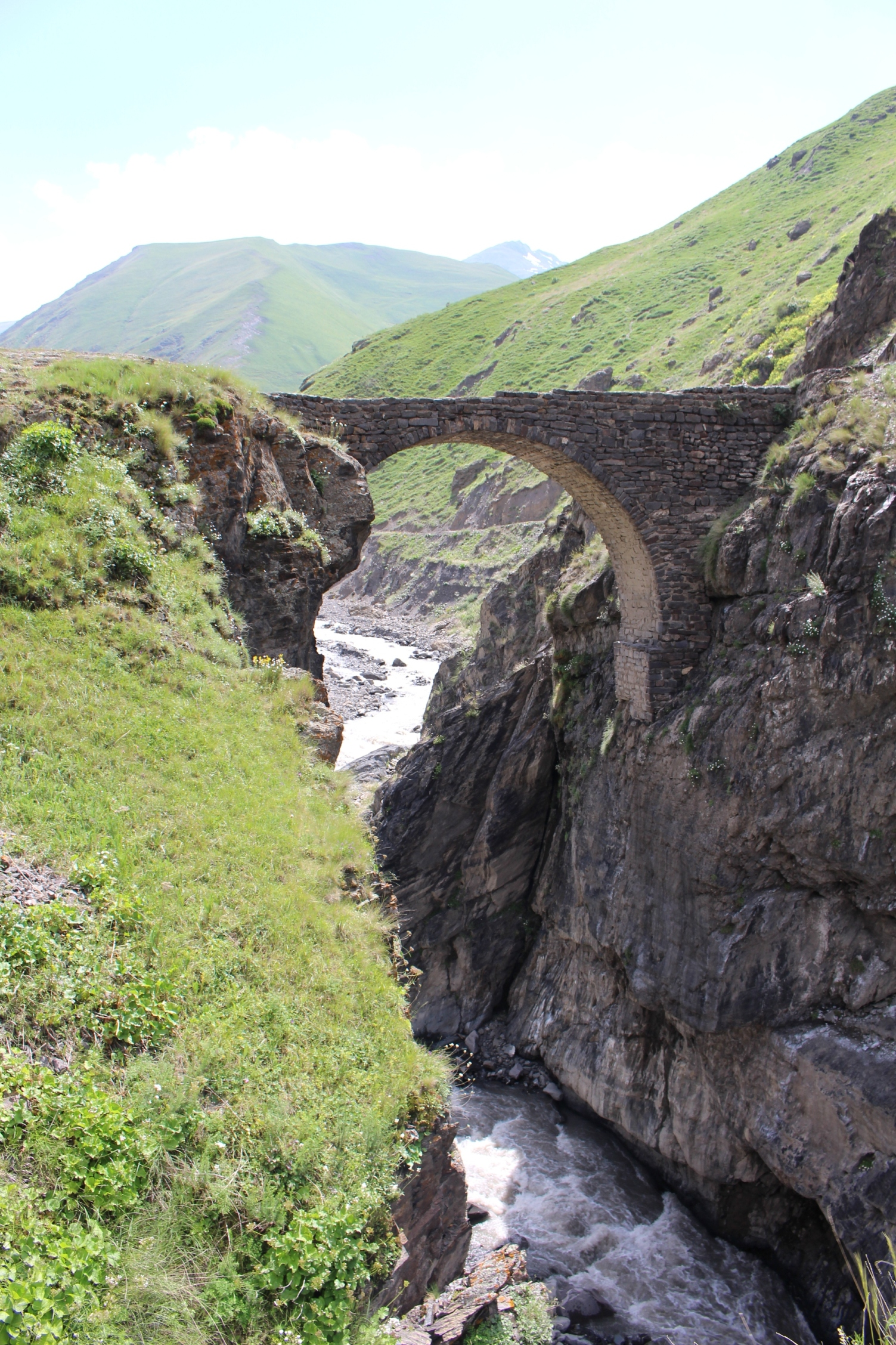 View of a bridge near the village of Fiy, located in the Southern Dagestan, Russian Federation.